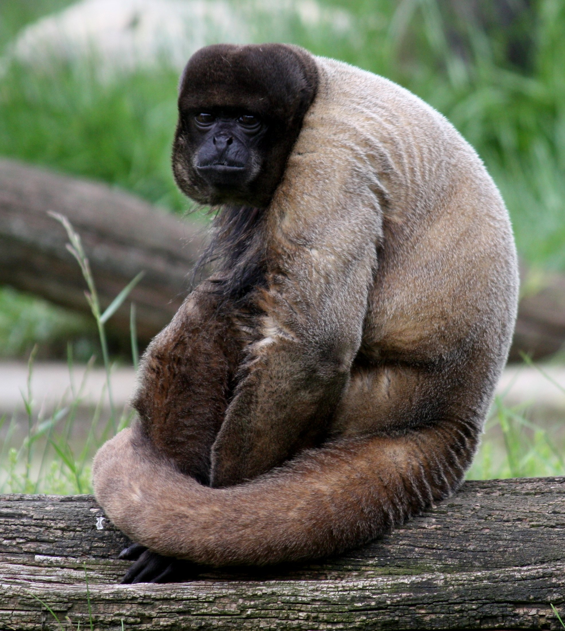 Lagothrix lagotricha in Louisville Zoo